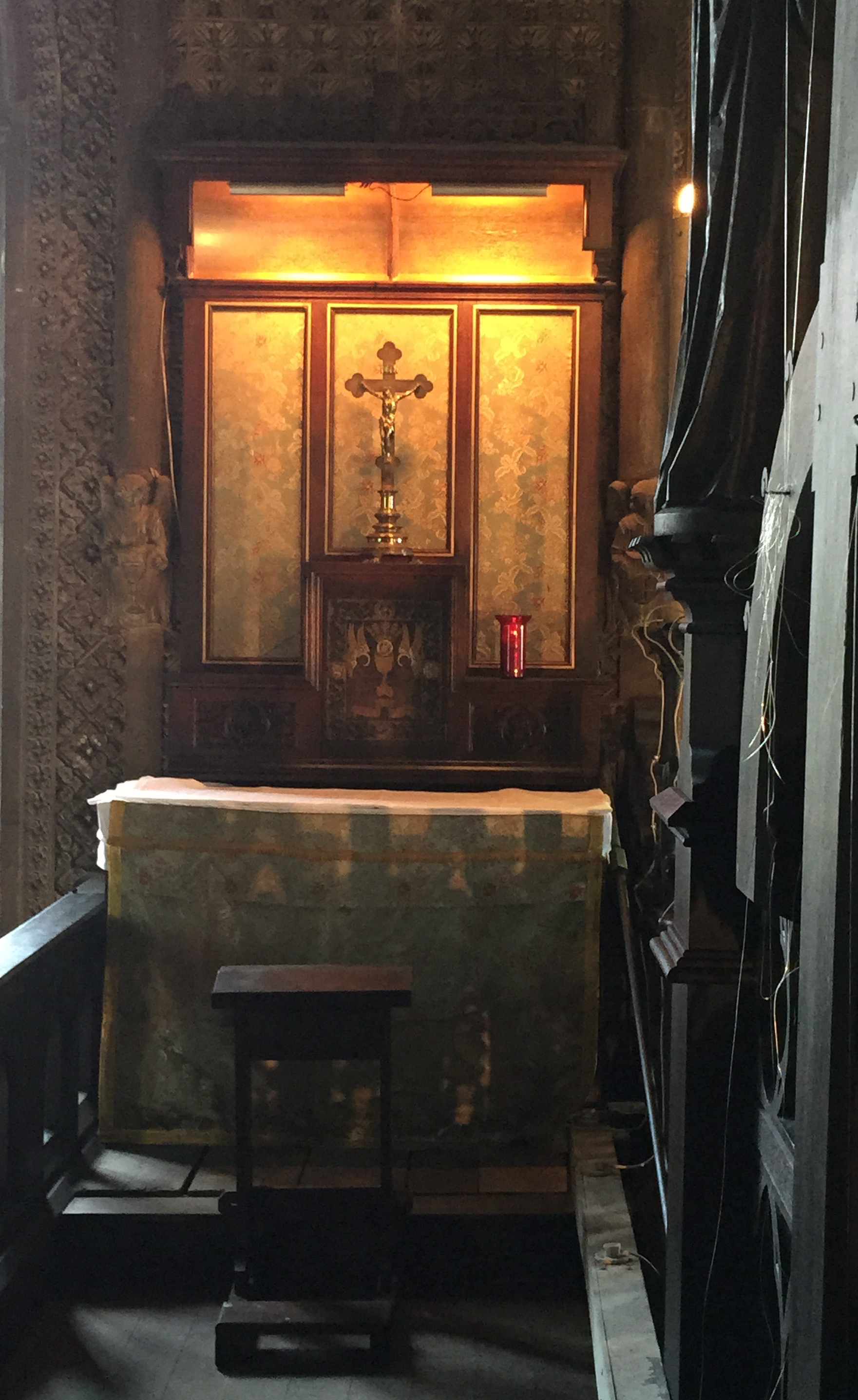 St Cuthberts Rood Screen South Side Altar